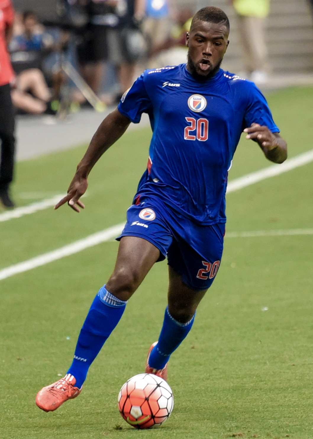 Duckens Nazon playing for Haiti's Men's National Team against Honduras in the Gold Cup, Sporting Park, Kansas City, Kansas, 13JUL2015